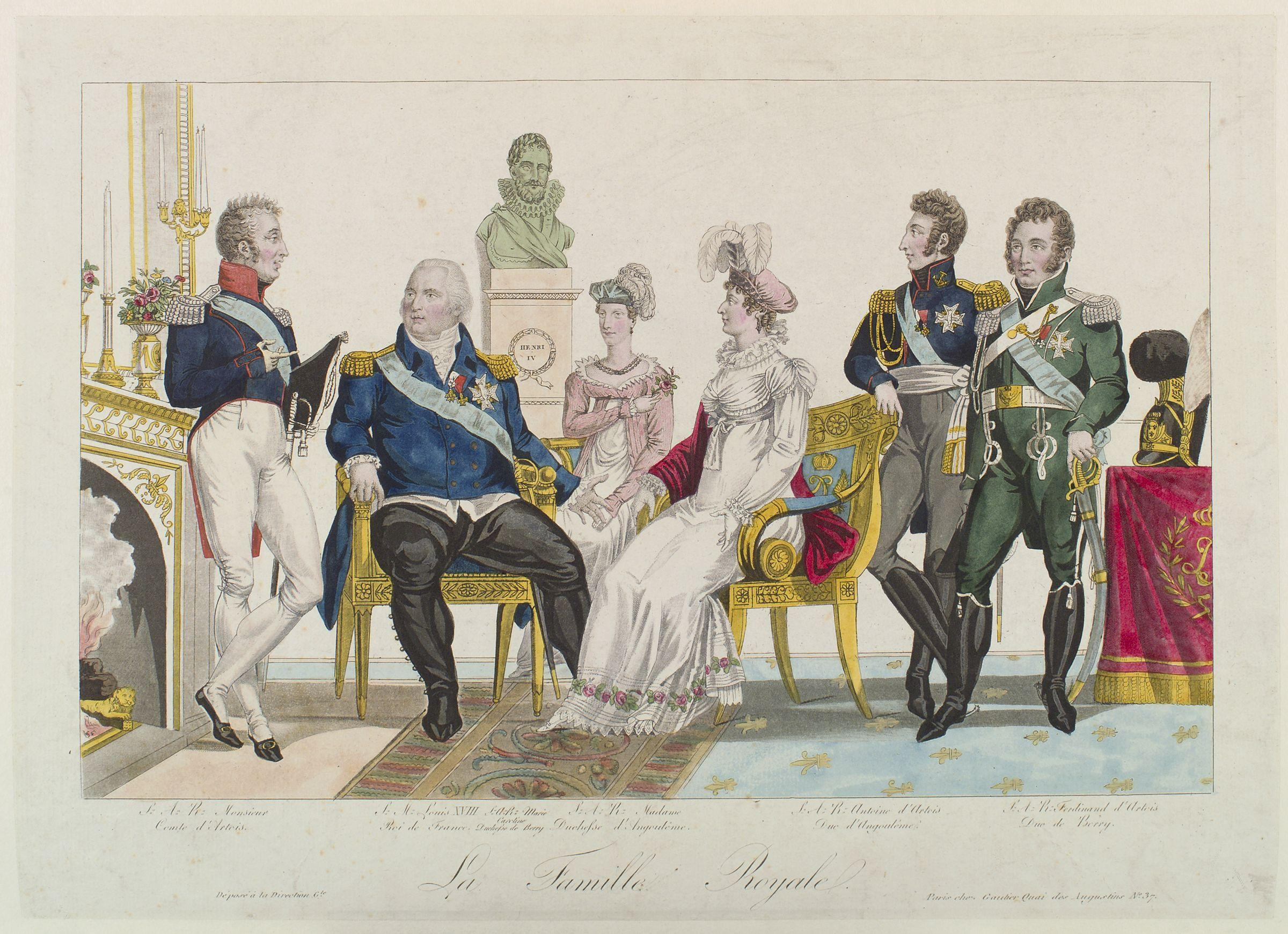 All images in this batch have been evaluated manually for evidence that the artist probably died before 1939, or that the work is anonymous or pseudonymous and was probably published before 1923. From the portrait set "Madame D'Arblay Diary, 1778-1840 (volume 6, part 1)"; hence author was alive in 1840, and is presumed dead in 1923.